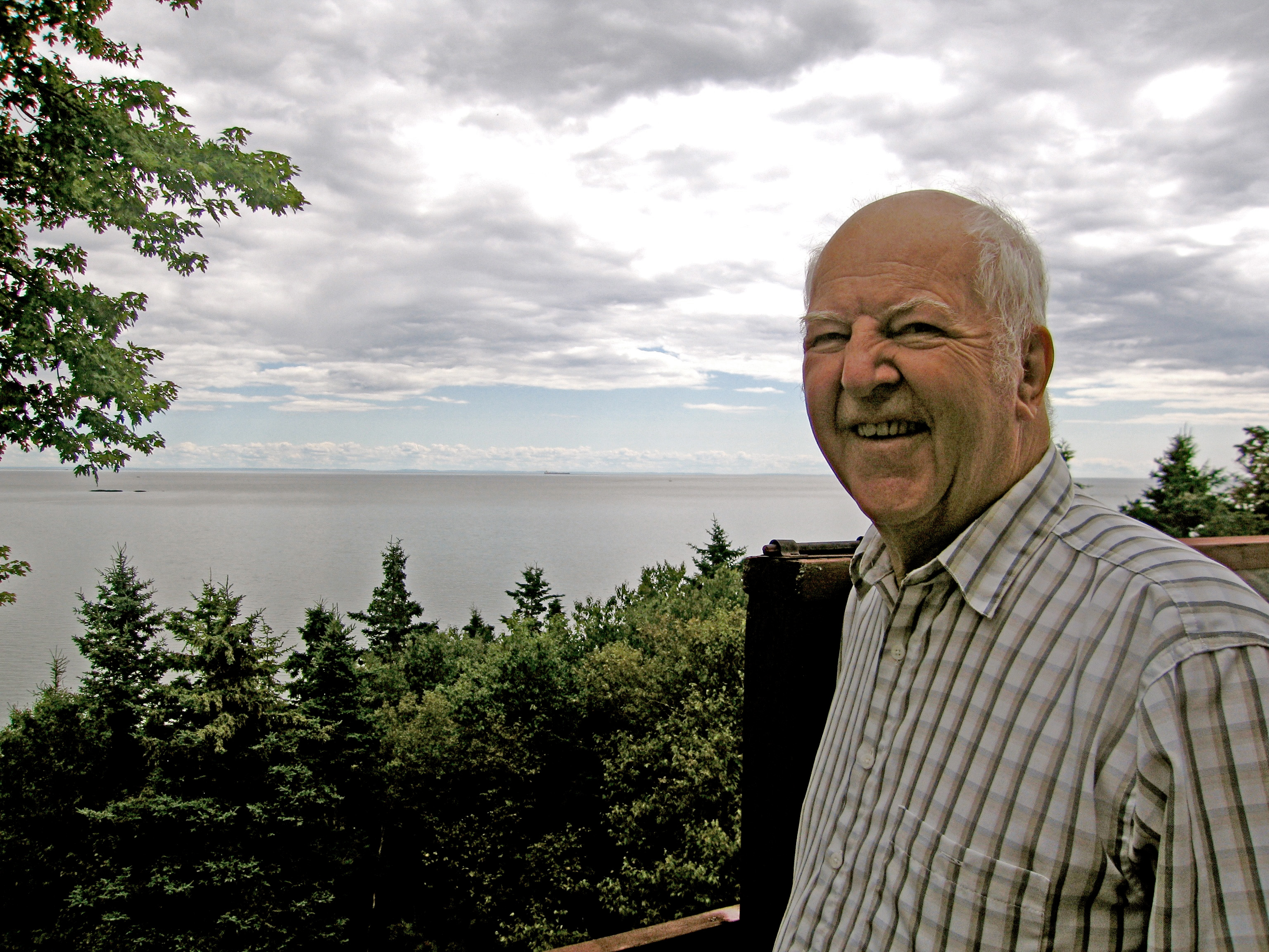 At his home in West Saint John overlooking the Bay of Fundy. Aged 80.